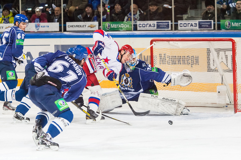 Amur Khabarovsk—CSKA Moscow KHL-game on November 30, 2012. CSKA Moscow forward Igor Grigorenko (in white) scores the first goal of the game with backhand. Alexei Murygin is on the net.